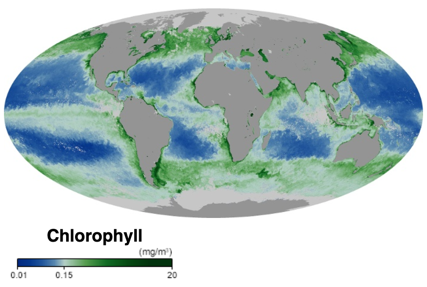 Ocean chlorophyll concentration, October 2019 At the base of the ocean food web are single-celled algae and other plant-like organisms known as phytoplankton. Like plants on land, phytoplankton use chlorophyll and other light-harvesting pigments to carry out photosynthesis, absorbing atmospheric carbon dioxide to produce sugars for fuel. Chlorophyll in the water changes the way it reflects and absorbs sunlight, allowing scientists to map the amount and location of phytoplankton. These measurements give scientists valuable insights into the health of the ocean environment, and help scientists study the ocean carbon cycle. The map shows milligrams of chlorophyll per cubic meter of seawater. Places where chlorophyll concentrations are high are green, indicating lots of phytoplankton. Places where chlorophyll amounts are low are blue, indicating few phytoplankton. The observations come from the Moderate Resolution Imaging Spectroradiometer (MODIS) on NASA's Aqua satellite. Land is dark gray, and places where MODIS could not collect data because of sea ice, polar darkness, or clouds are light gray. Source: NASA Earth Observatory